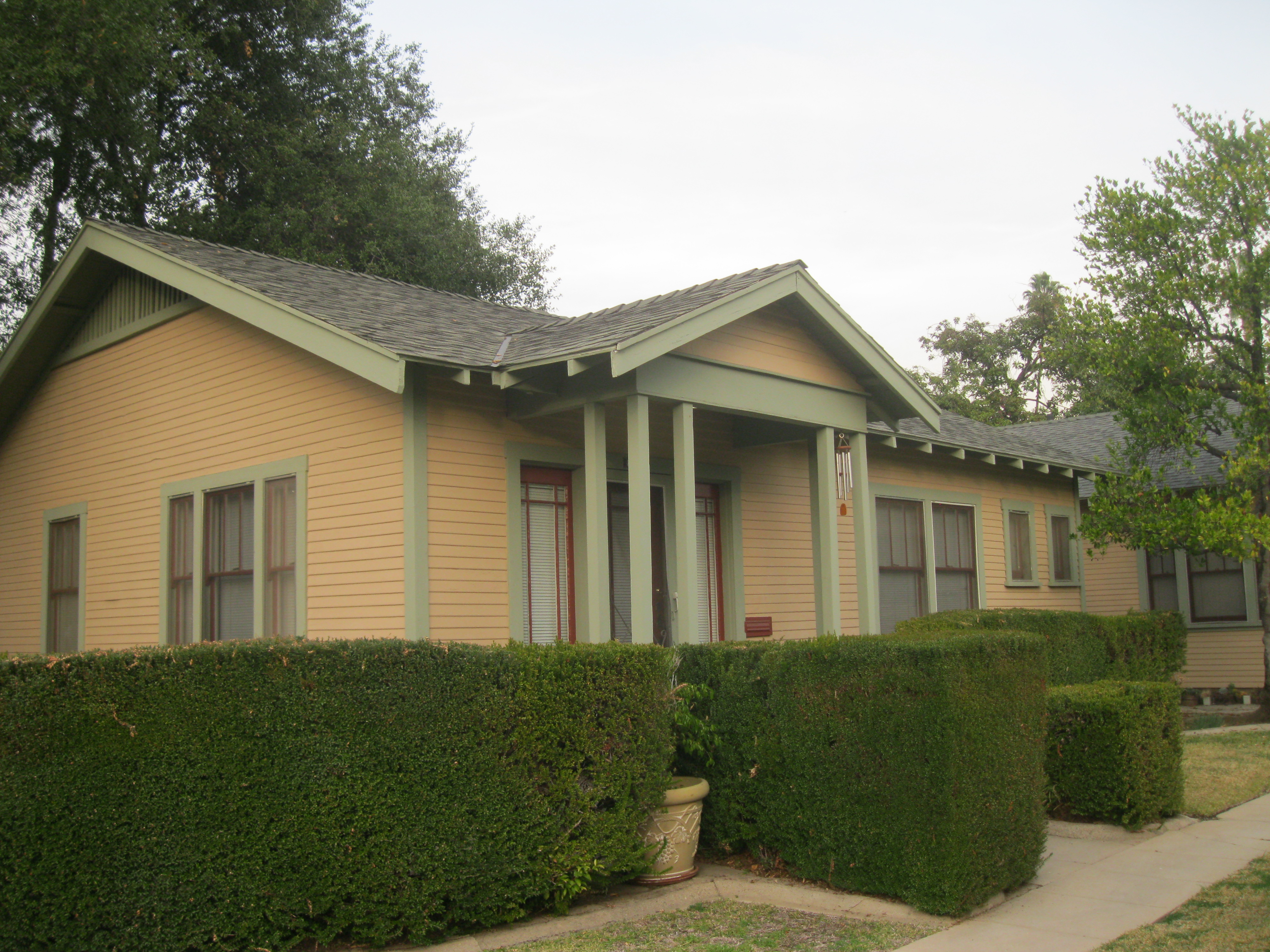 The Court at 638-650 North Mar Vista Avenue in Pasadena, California, which is listed on the National Register of Historic Places.